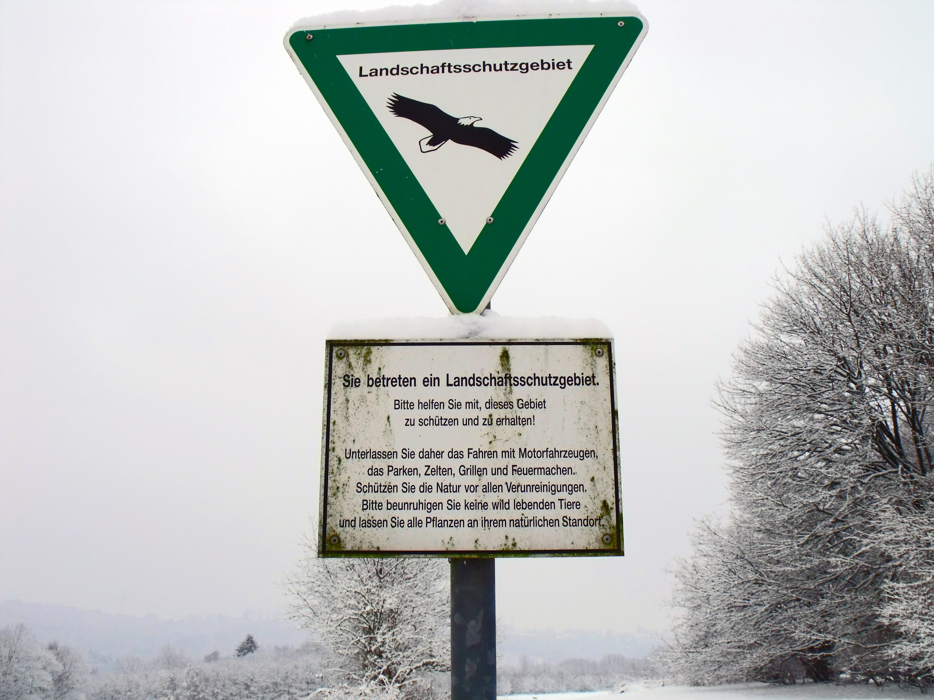 Solingen, Wupper mountains, looking towards the Hasseldeller shore NRW